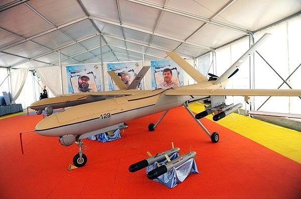 Iranian Shahed 129 UCAV (first generation) at an IRGC-ASF arms expo.